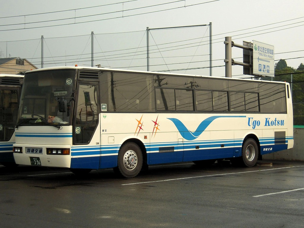 Ugo kotsu Isuzu Super Cruiser (U-LV771R)